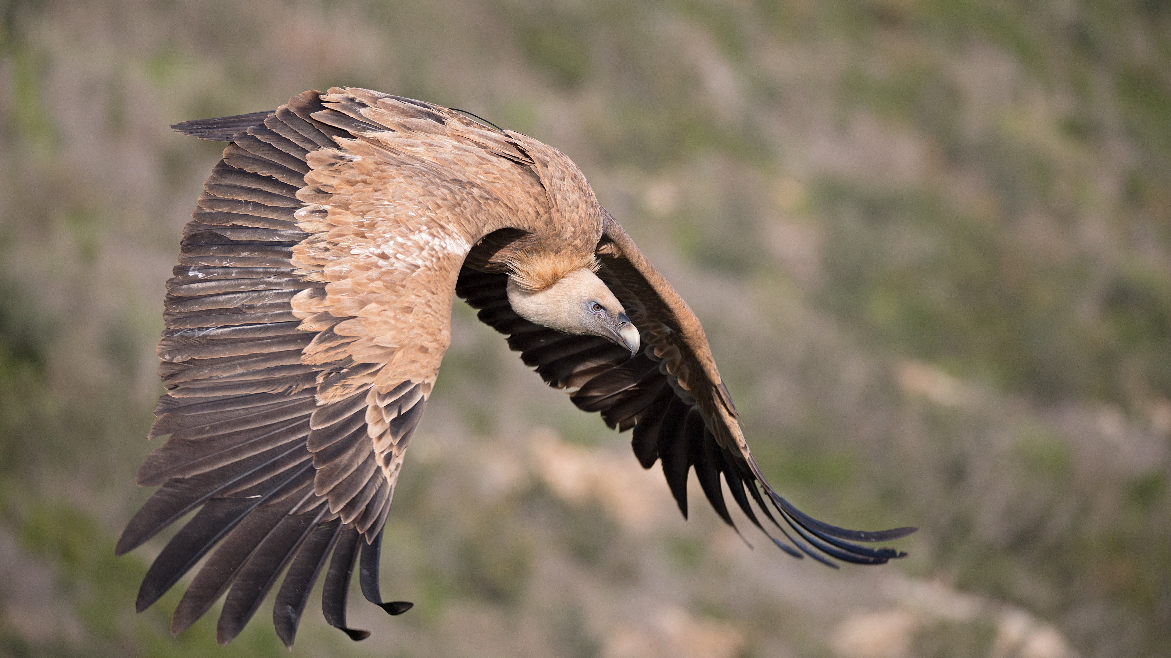 Griffon vulture at flight, The photo is taken at Carmel Hai-Bar Nature Reserve where migrating vultures join locally bred ones at winter period. Some times per day feral vultures gather on the top of the cage with captive ones, making a perfect spot for photographing them during landing/takeoff. This picture is taken on vulture takeoff, so it's heading down.